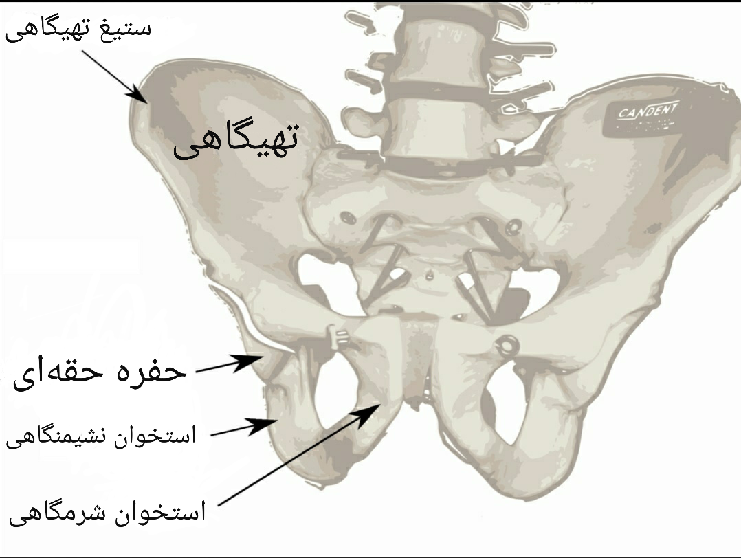 Ilium bone description in Persia.png